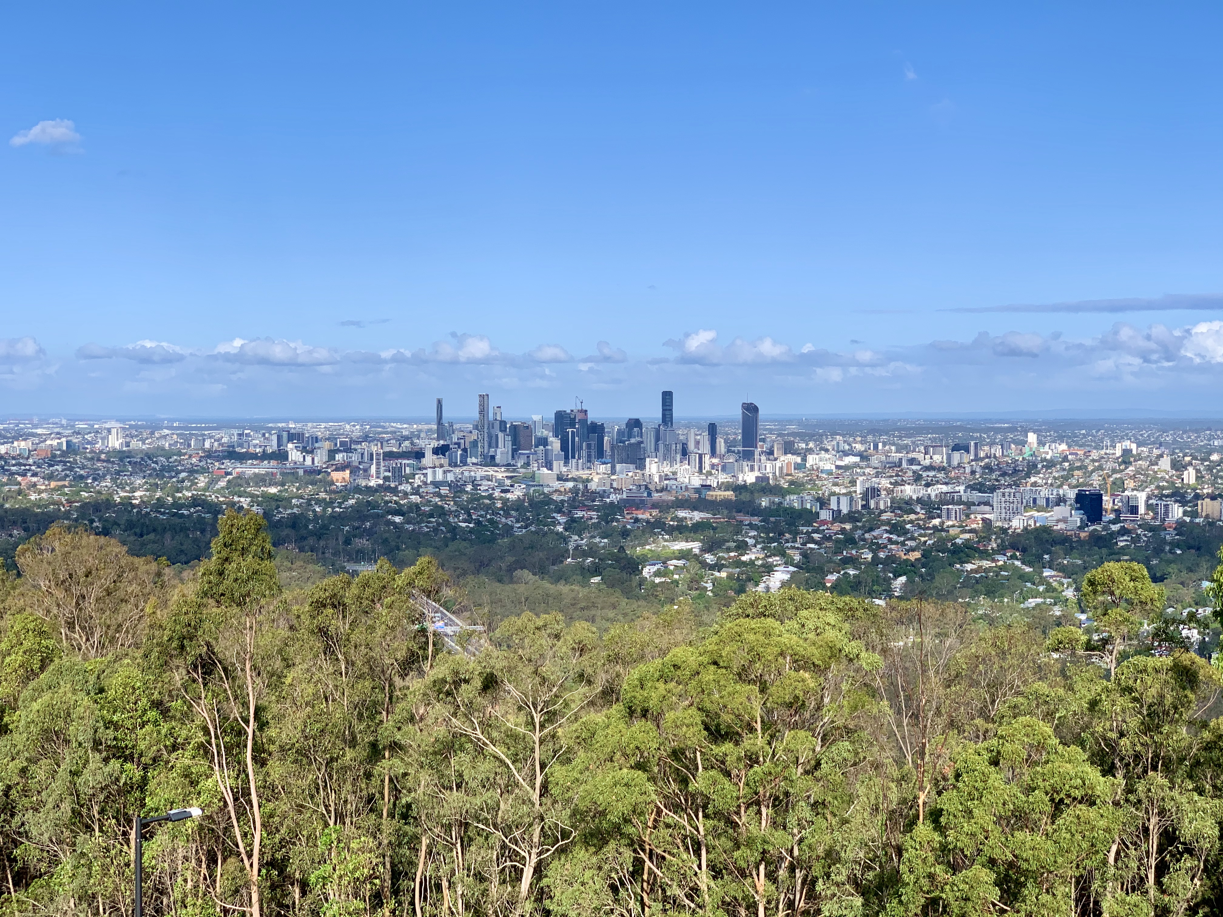 Brisbane CBD seen from Mount Coot-tha Lookout, Brisbane, December 2019